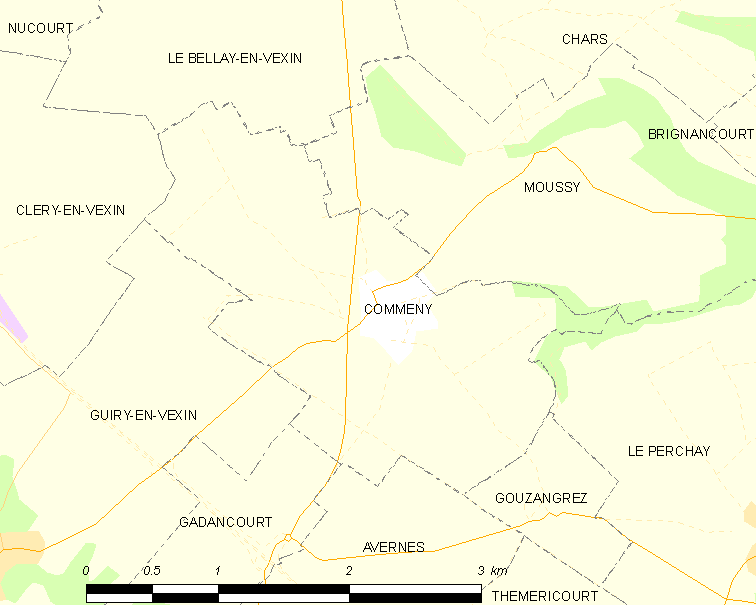 Map of French municipality Commeny